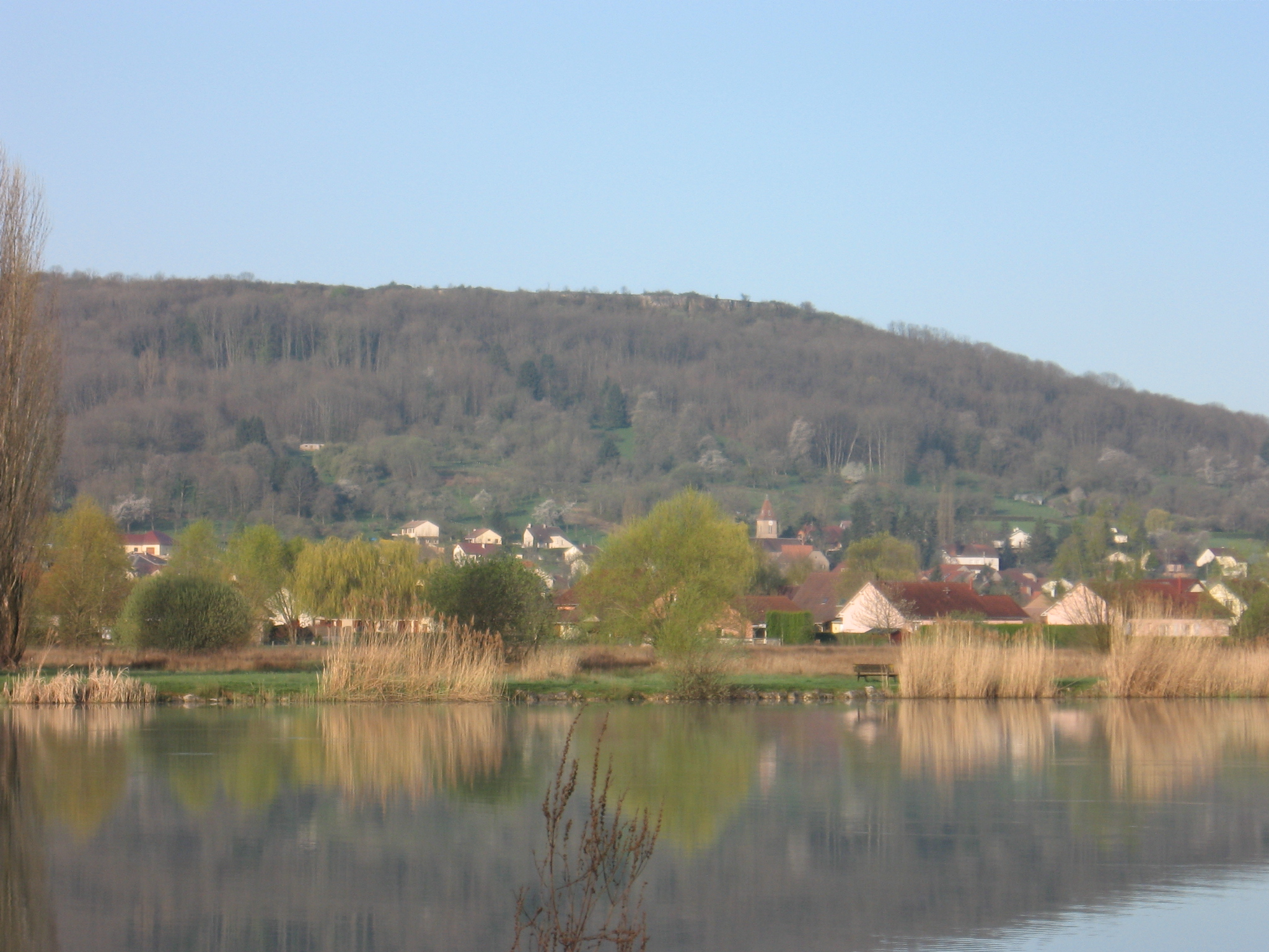 Vaivre-et-Montoille, seen from other side of lake